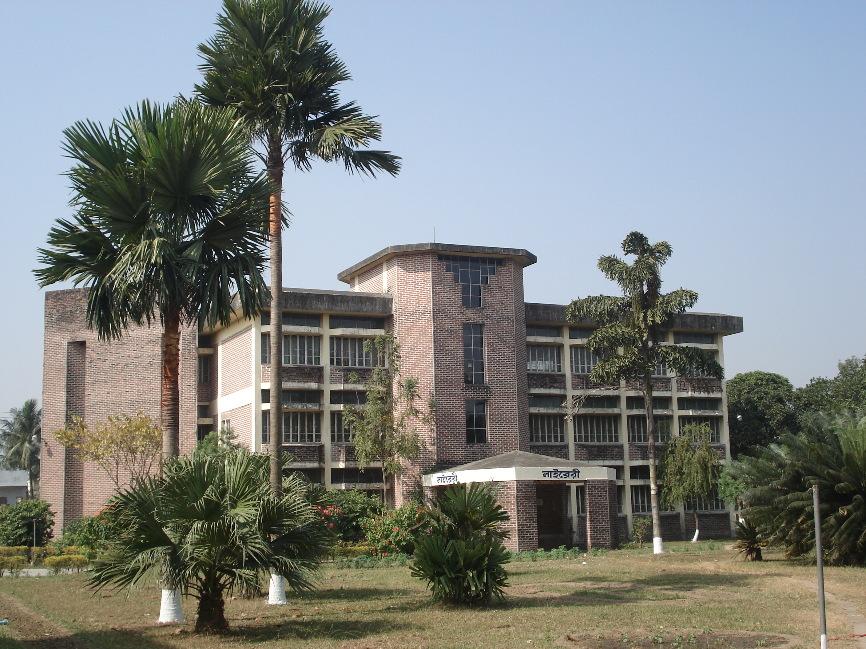 Hajee Mohammad Danesh Science and Technology University, Dinajpur: Library Building, Hajee Mohammad Danesh Science and Technology University, Dinajpur.